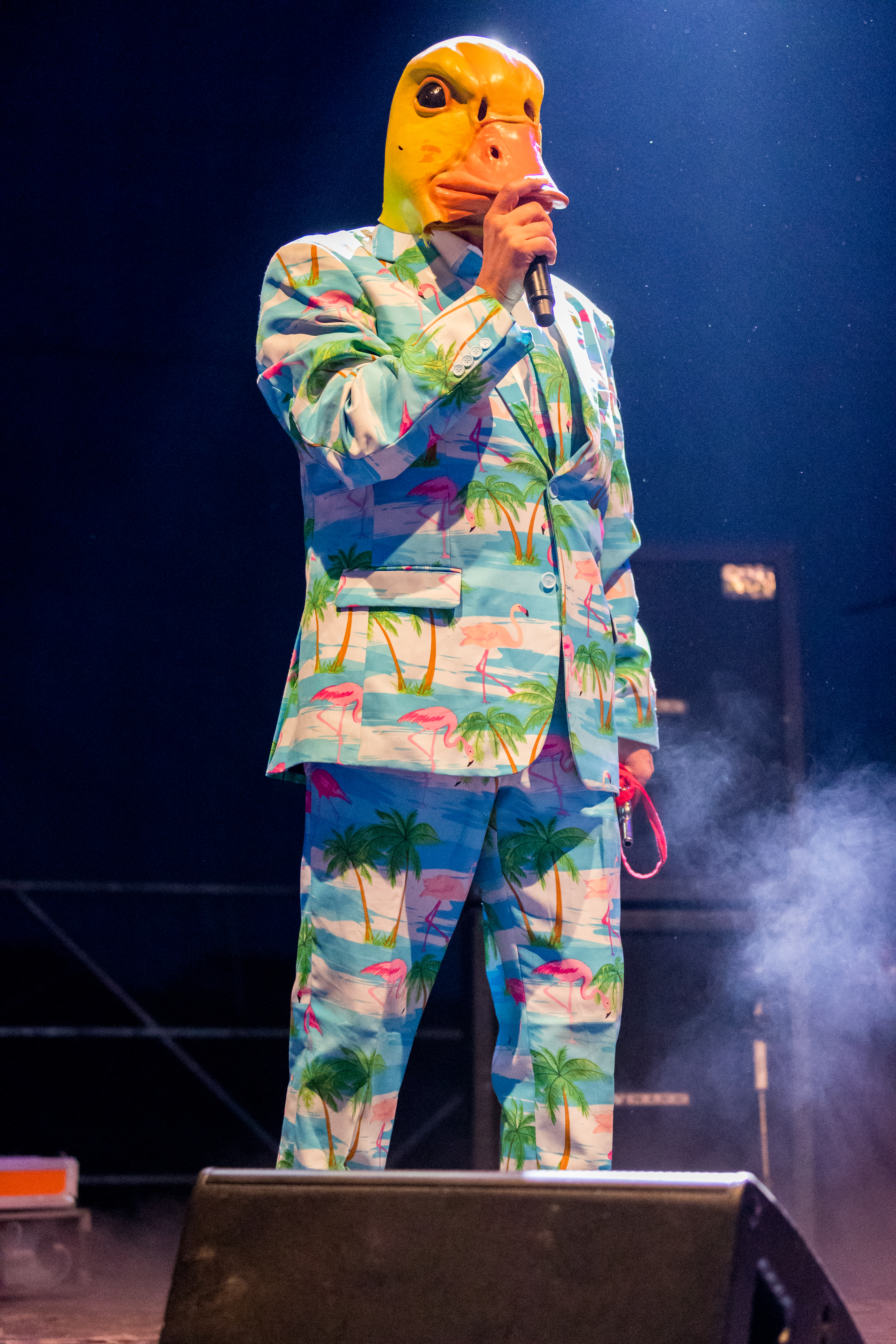 Ingo ohne Flamingo @ G.O.N.D. 2018 Ingo Flamingo during G.O.N.D. at Gut Matheshof, Rieden, Bayern, Germany on 2018-07-13, Photo: Sven Mandel